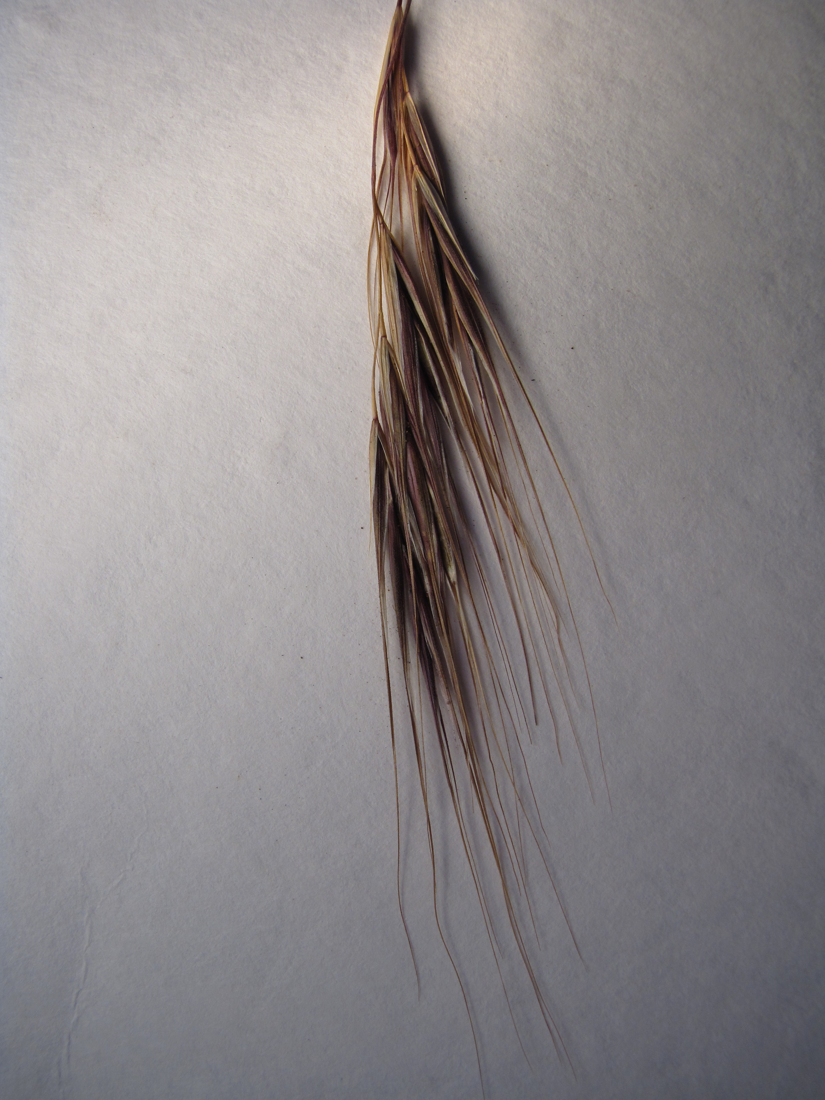 Bromus diandrus (Ripgut grass) Voucher 090628 01 at Science City, Maui, Hawaii. July 06, 2009 #090706-2237 Image Use Policy Also known as Bromus rigidus.